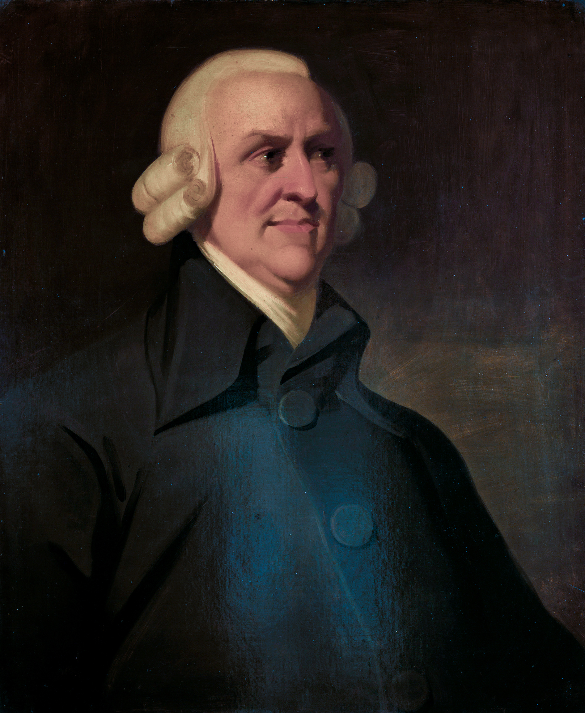 Portrait of the political economist and philosopher Adam Smith (1723-1790) by an unknown artist, which is known as the ‘Muir portrait’ after the family who once owned it. The portrait was probably painted posthumously, based on a medallion by James Tassie.